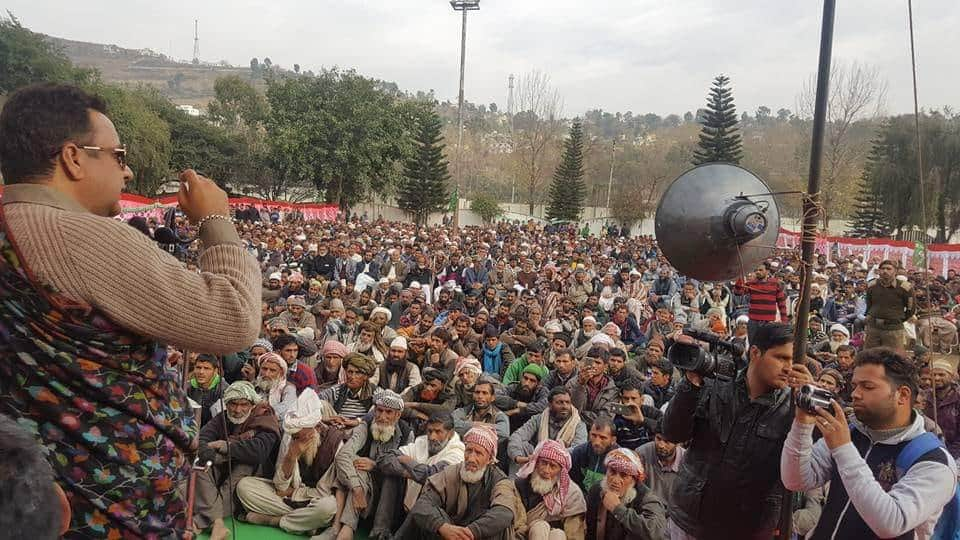 Zulfkar in his constituency